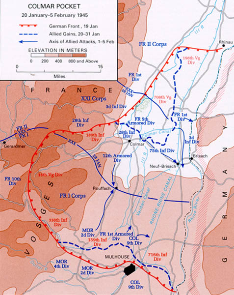 Map of the Colmar Pocket. W. B. Wilson 22:31, 15 March 2007 (UTC) Source for image is (U.S. Army publication in the public domain) W. B. Wilson 02:53, 14 May 2007 (UTC)